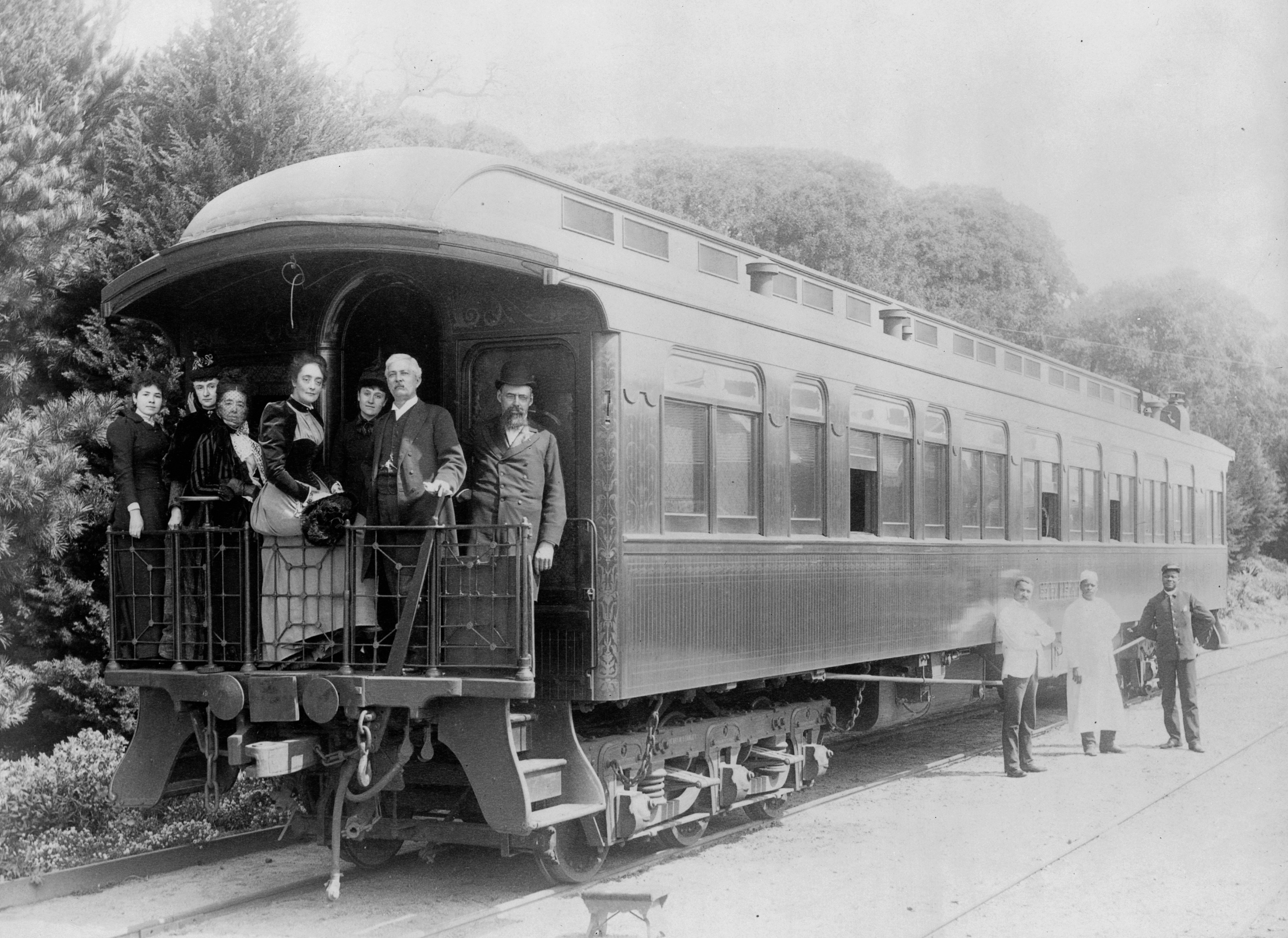 Henry M. Stanley and party standing on back of train at Monterey, California, March 19th, 1891, porters standing at side of car. From his autobiography ([1]) "We now travelled over the States and Canada, in a special Pullman-car, which had been named 'Henry M. Stanley'. It was palatial as we had our own kitchen and cook, a dining car, which, at night was converted into a dormitory, a drawing room with piano, three state-bedrooms and a bathroom". Regarding other people in the image: from "Stanley: Africa's Greatest Explorer" By Tim Jeal ([2]): "A large party came on Stanley's American tour, with Jephson and Sali included, as well as Major Pond, Henry's lecture agent, and Pond's wife and her sister." "A special Pullman car, named "Henry M. Stanley" was obtained by Pond for the party."